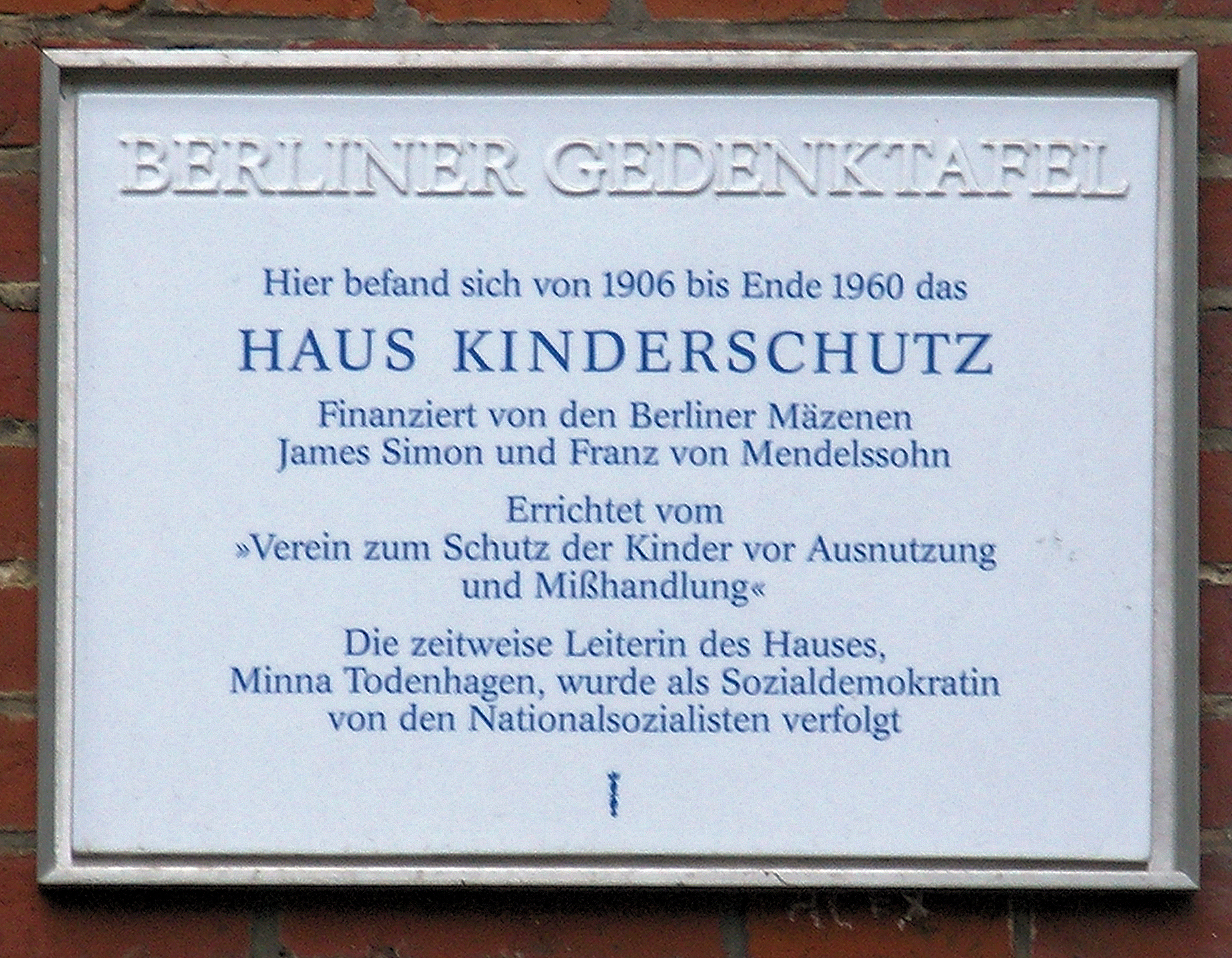 Berlin memorial plaque, Haus Kinderschutz, Claszeile 57, Berlin-Zehlendorf, Germany